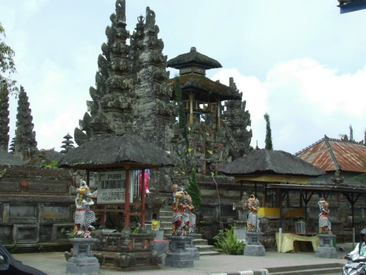 Entrance of Pura Ulun Danu Batur with candi bentar and bale kulkul.